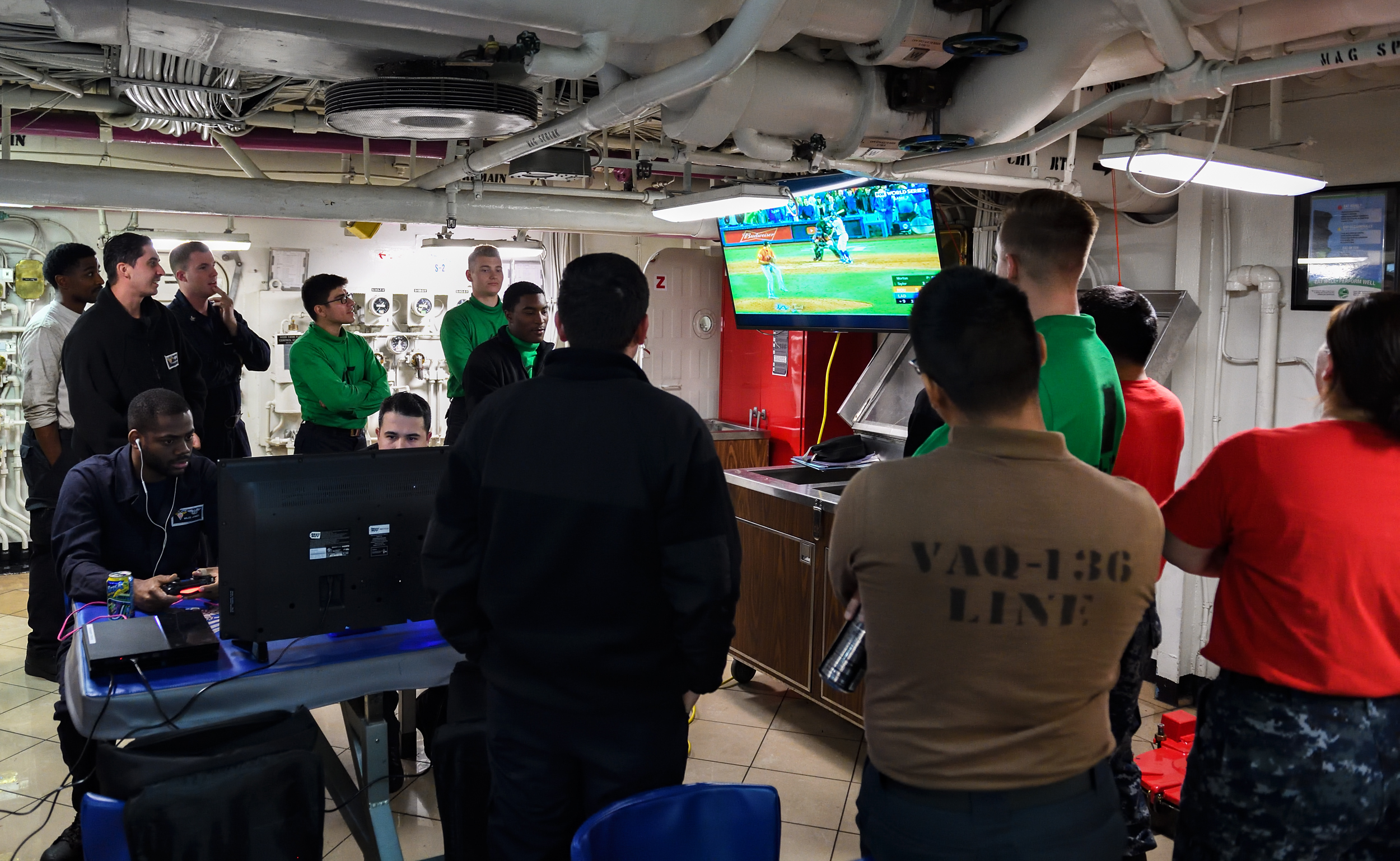 PACIFIC OCEAN (Nov. 1, 2017) Sailors watch game seven of the World Series on the mess deck of the Nimitz-class aircraft carrier USS Carl Vinson (CVN 70). Carl Vinson is participating in a sustainment training exercise in preparation for an upcoming deployment. (U.S. Navy photo by Mass Communication Specialist Seaman Dylan M. Kinee/Released)